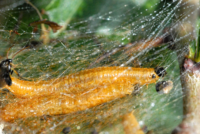 Picture taken in Commanster, Belgian High Ardennes . Species: Hedya nubiferana caterpillar